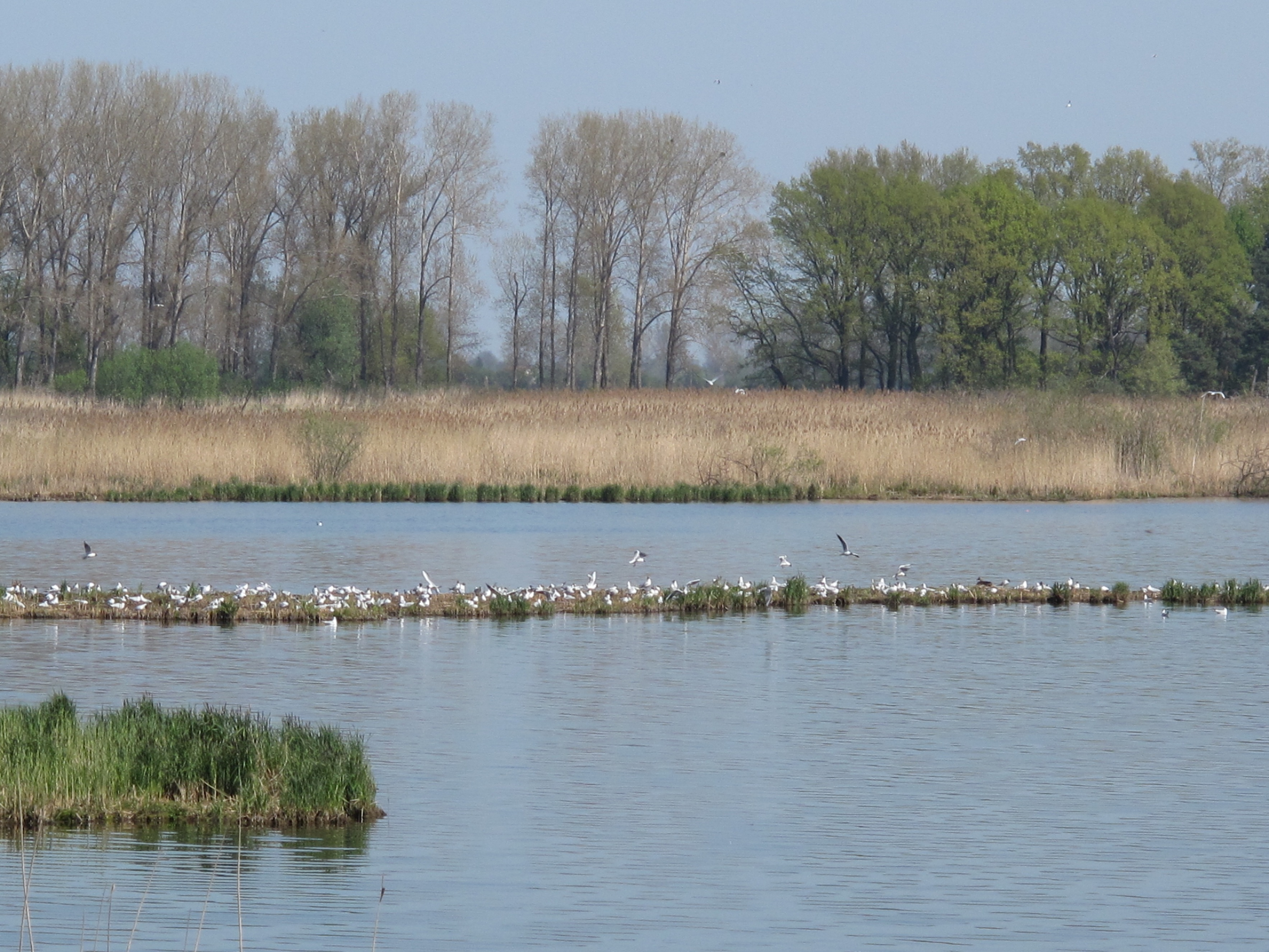 The Europäisches Vogelschutzgebiet Altfriedländer Teich- und Seengebiet is a European bird protection area (SPA) around Altfriedland, a village of the municipality Neuhardenberg in the District Märkisch-Oderland, Brandenburg, Germany. The Kietzer See is the body of water at the center of the area.